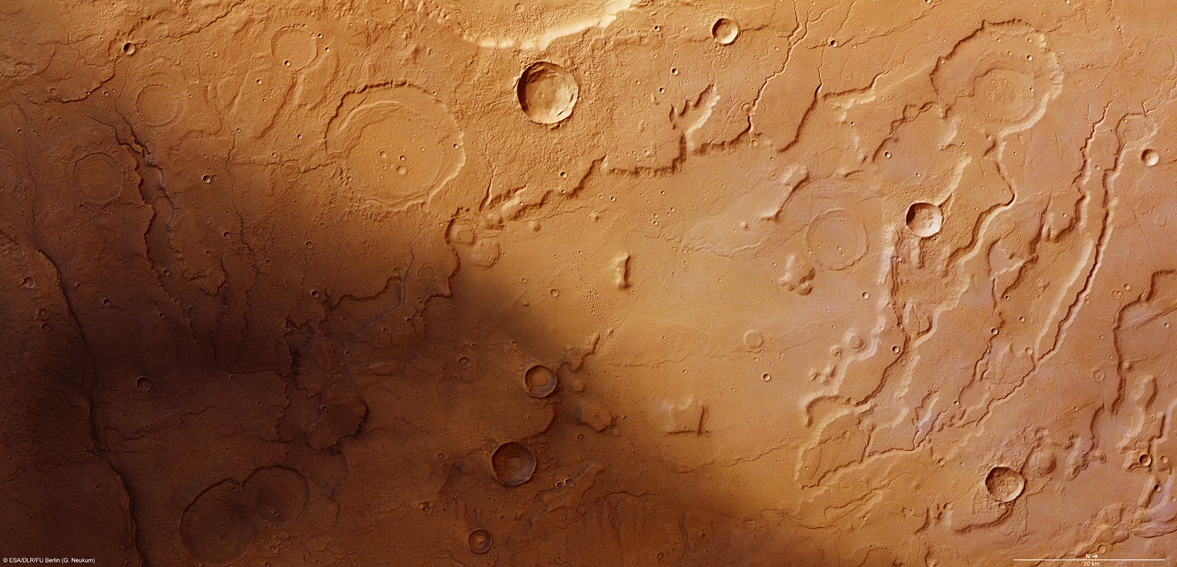 The transition between Acidalia Planitia and Tempe Terra from the Mars Express High-Resolution Stereo Camera (HRSC) nadir and colour channels, combined to form a natural colour view of the region. Centred at around 37°N and 306°E, this image has a ground resolution of about 15 m per pixel. The dendritic channels found commonly on Earth have analogues in the far-flung reaches of the Solar System. Here, it is strong evidence for the existence of water in Mars’ past. For further information, please visit: Credit: ESA/DLR/FU Berlin (G. Neukum), CC BY-SA 3.0 IGO Copyright Notice: This work is licenced under the Creative Commons Attribution-ShareAlike 3.0 IGO (CC BY-SA 3.0 IGO) licence. The user is allowed to reproduce, distribute, adapt, translate and publicly perform this publication, without explicit permission, provided that the content is accompanied by an acknowledgement that the source is credited as 'ESA/DLR/FU Berlin’, a direct link to the licence text is provided and that it is clearly indicated if changes were made to the original content. Adaptation/translation/derivatives must be distributed under the same licence terms as this publication. To view a copy of this license, please visit